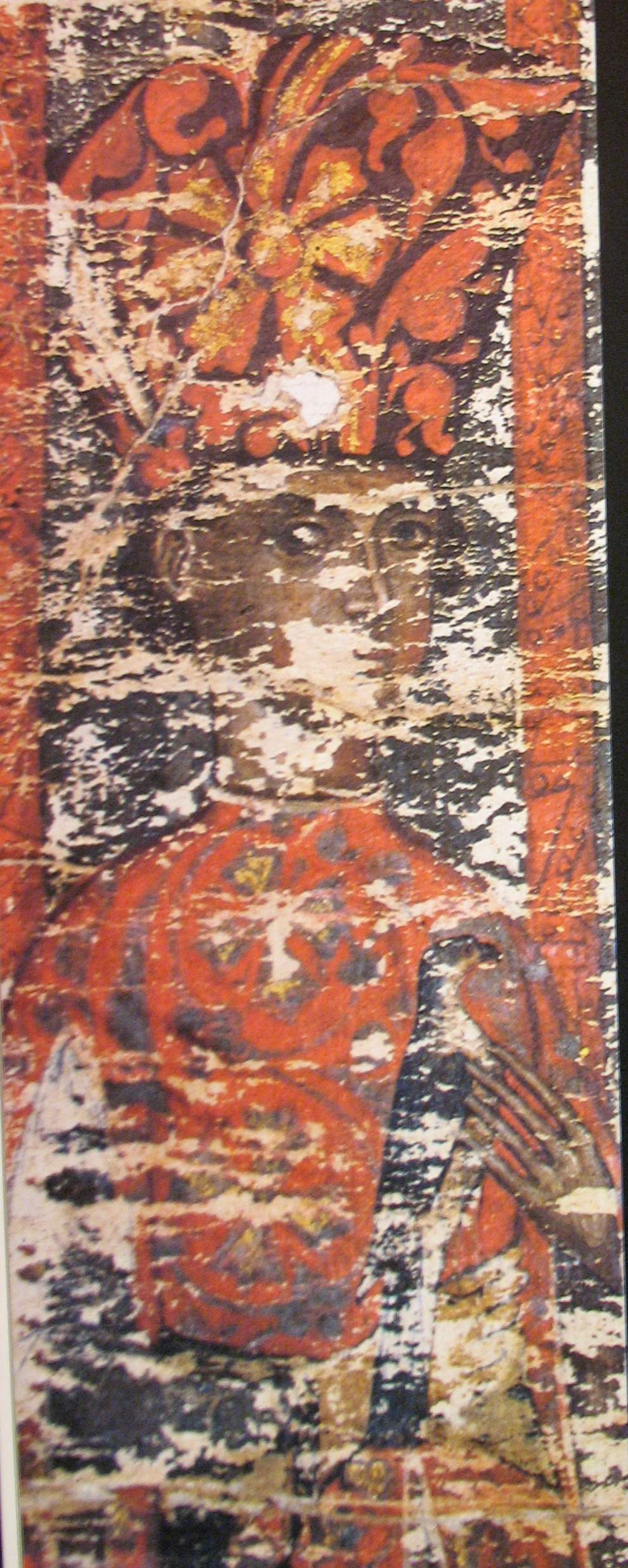 The ilustration of Grgur Branković in Esphigmenou charter from 1429.